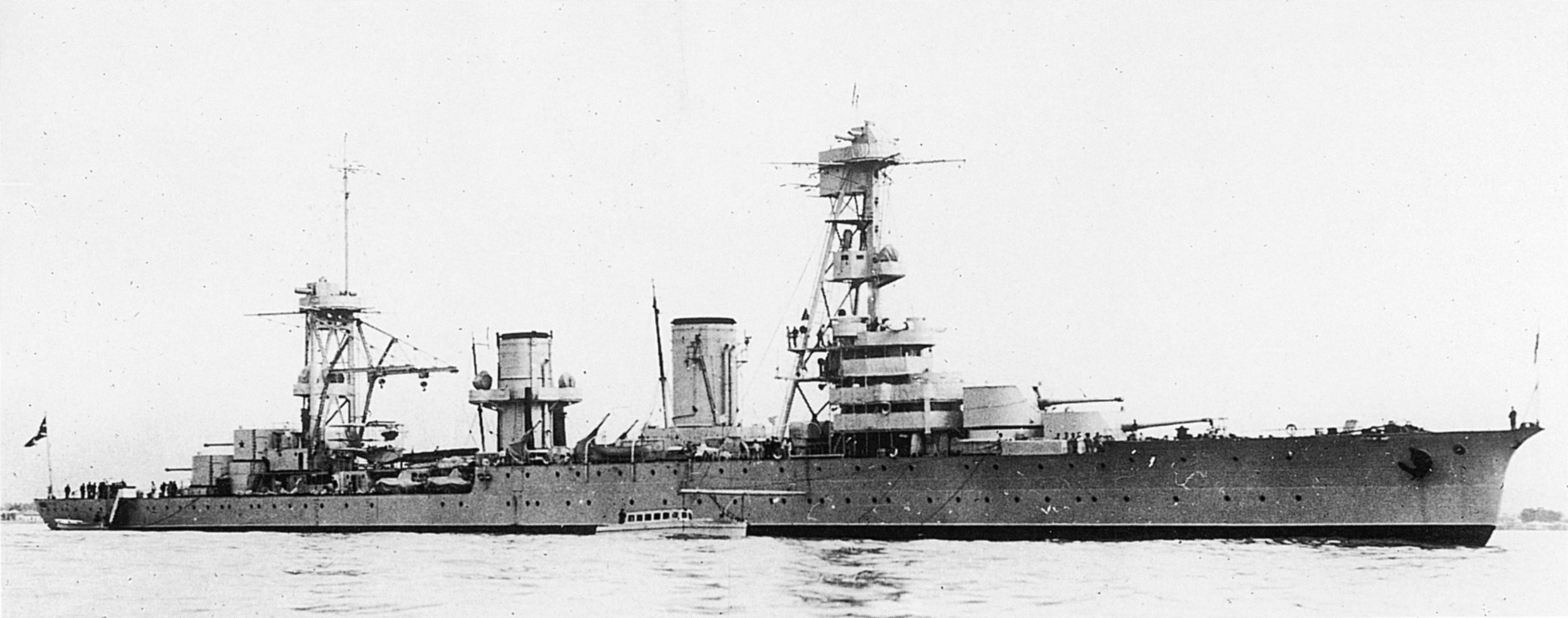 Soviet cruiser Krasnyy Kavkaz.